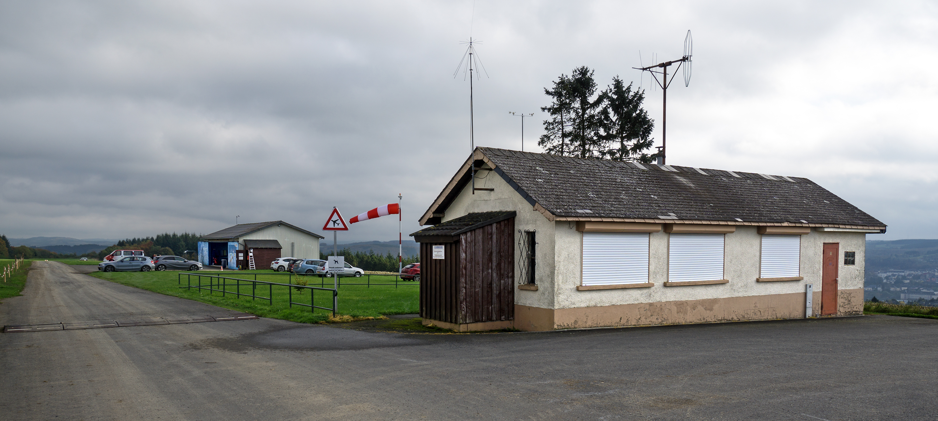 Buildings at the airfield in Noertrange